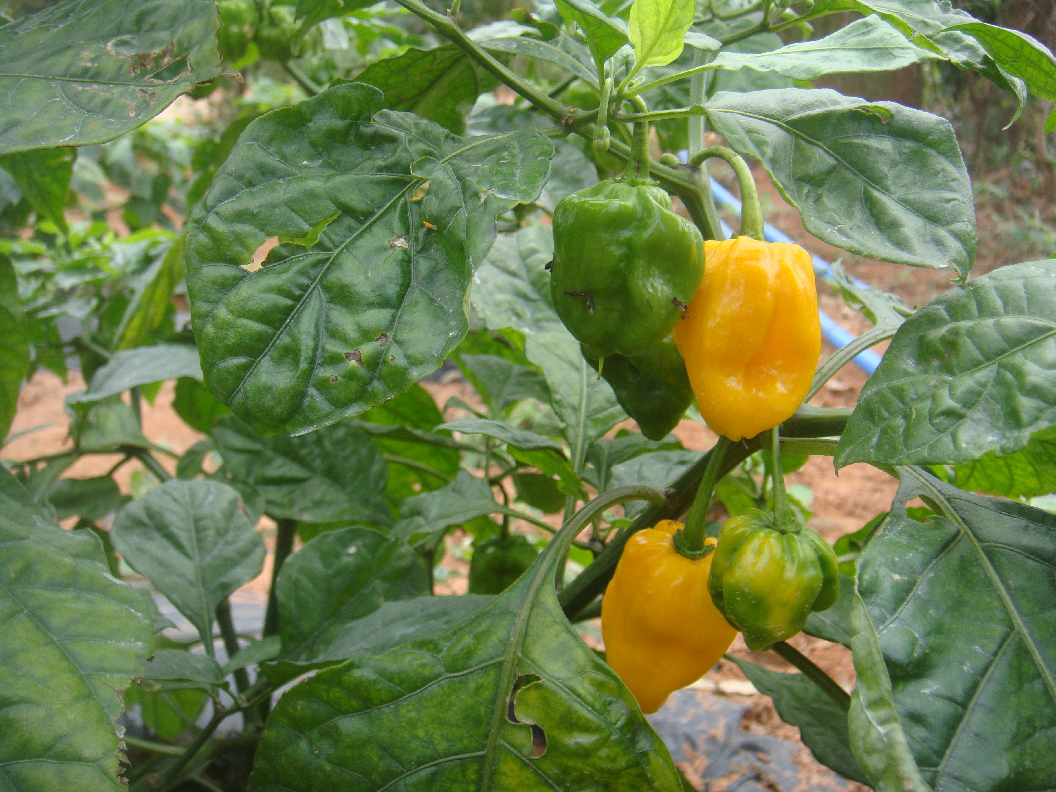 Hainan Yellow Lantern Chili plant near Wenchang, Hainan, China